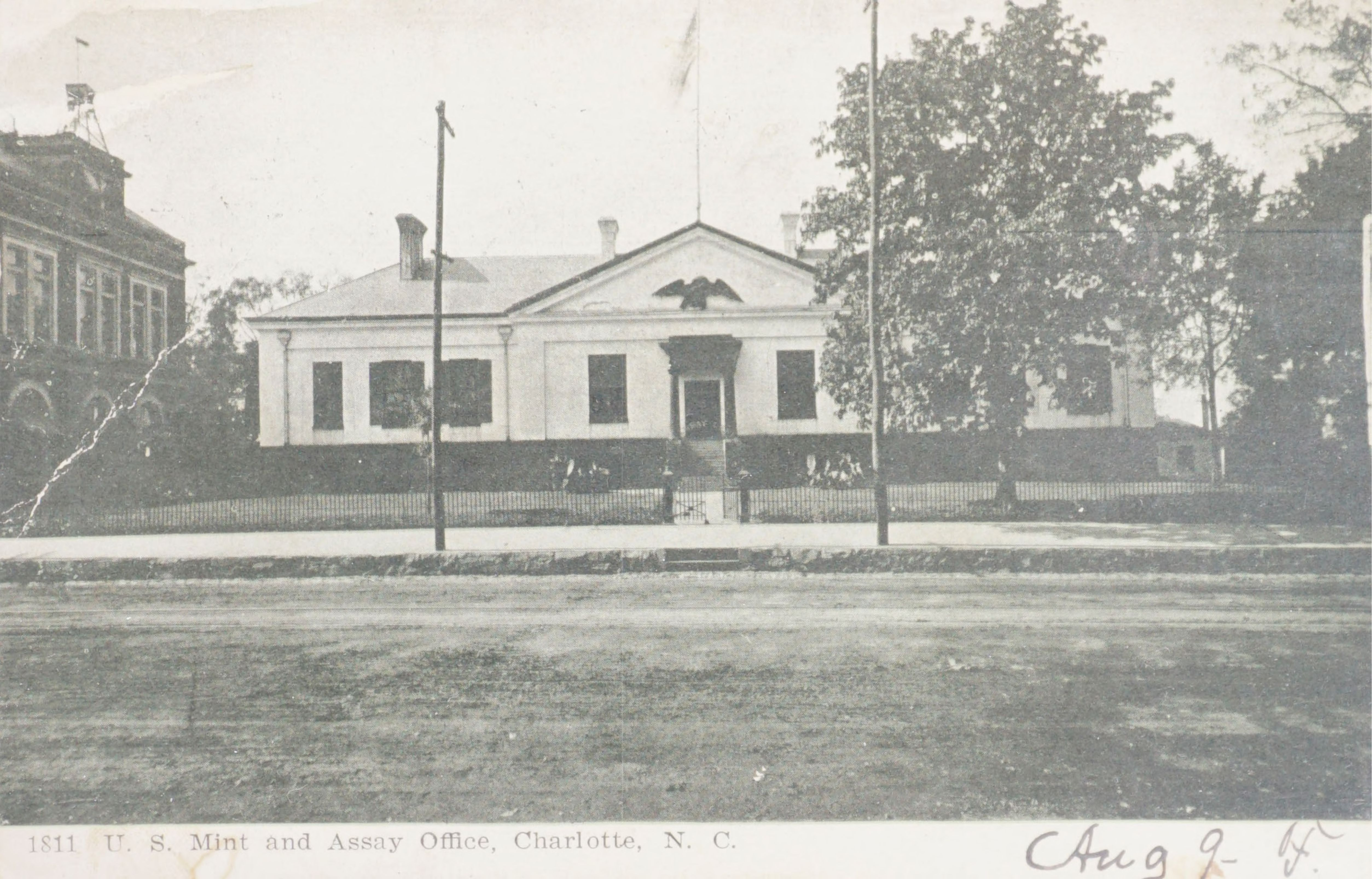 Front of postcard, U. S. Mint and Assay Office, Charlotte, N. C. Printed 1907.